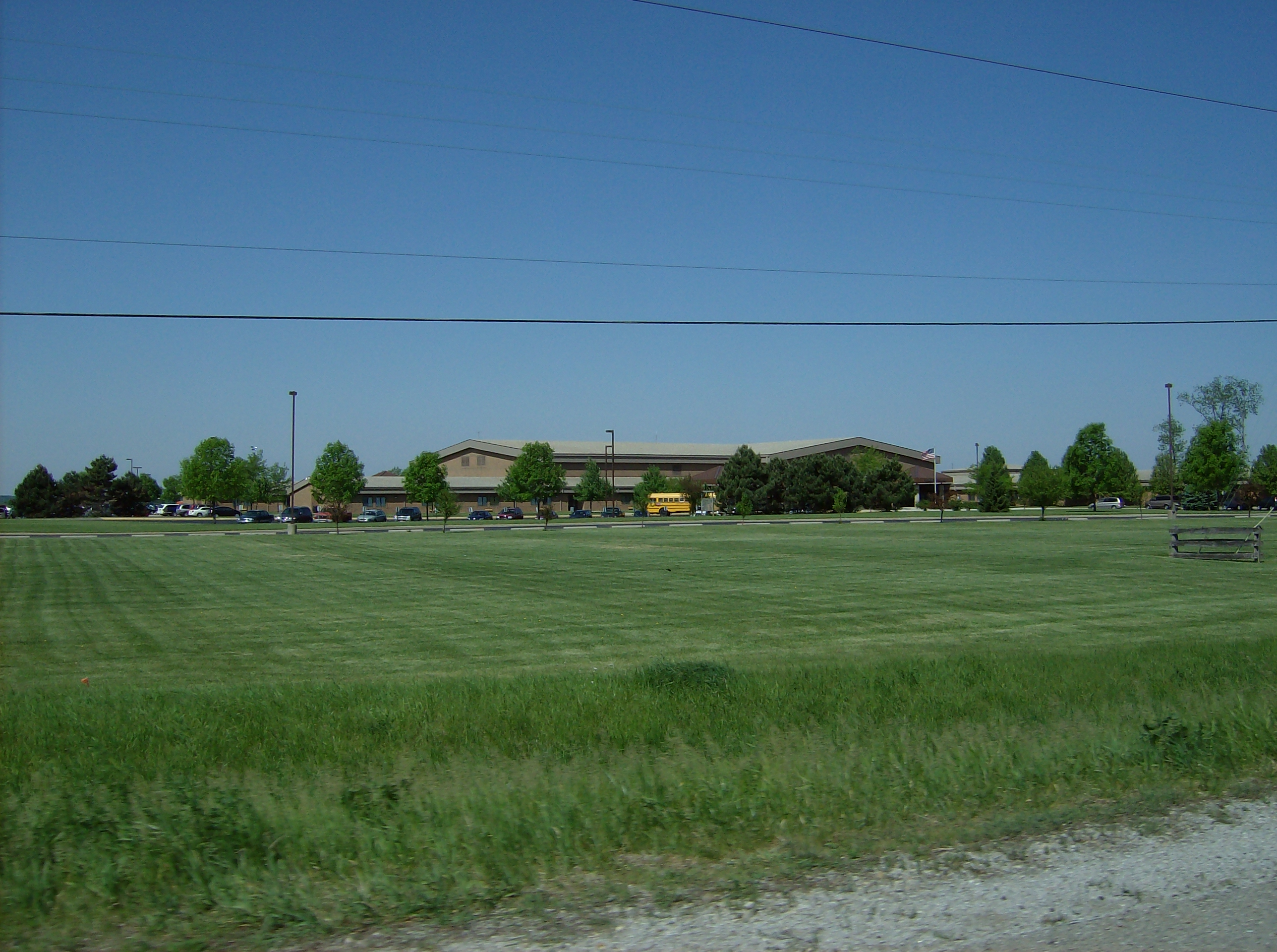 View of West Liberty-Salem High School, a public high school in Salem Township, Champaign County, Ohio, United States. Address is 7208 N. U.S. Route 68, just south of West Liberty.